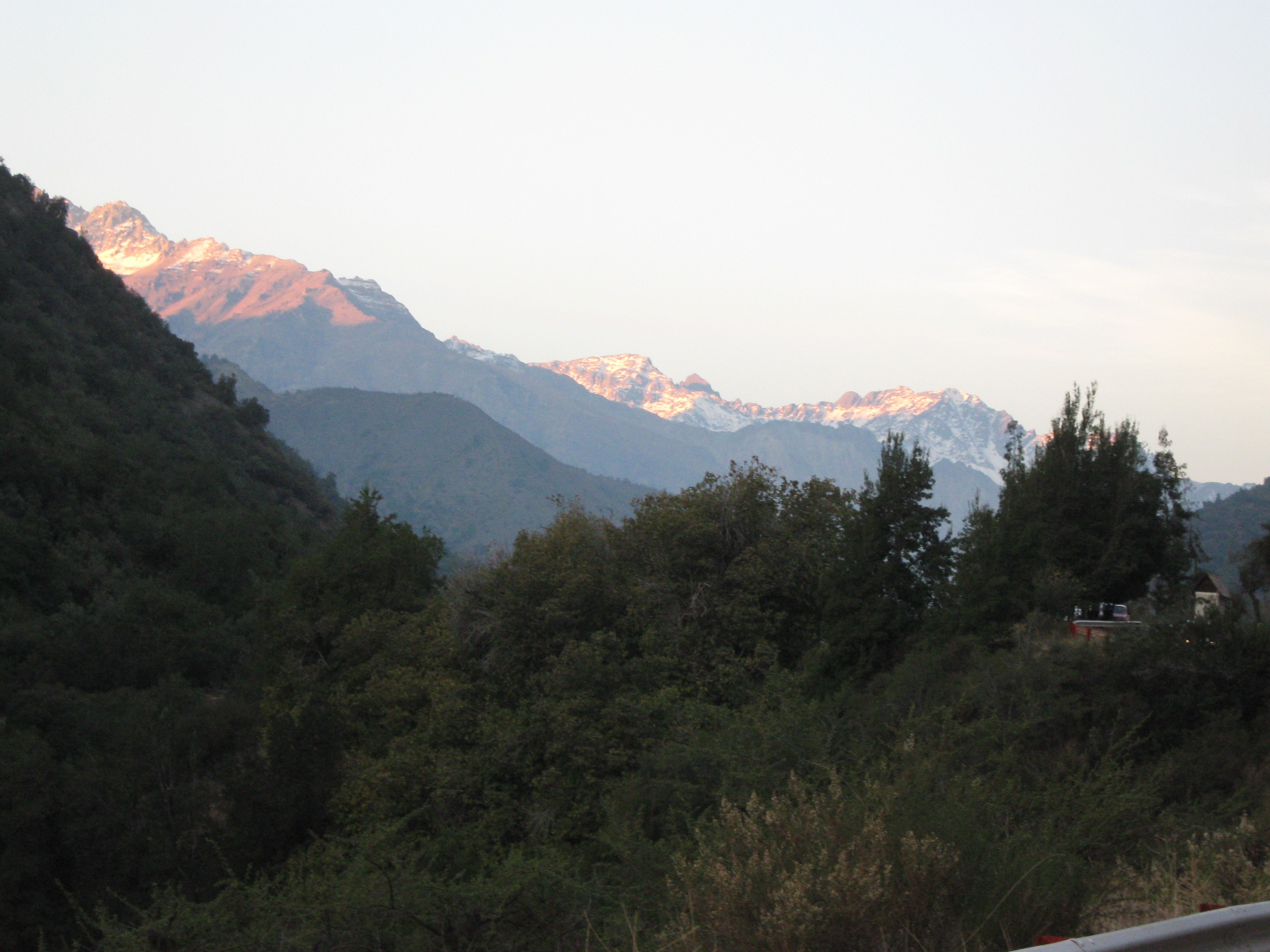 Maytenes, Cajón de Maipo. Cordillera-Chile